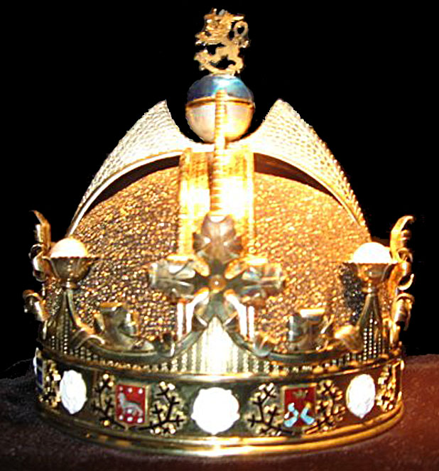 Crown designed for the king of Finland. Gemstone Gallery, Kemi, Finland